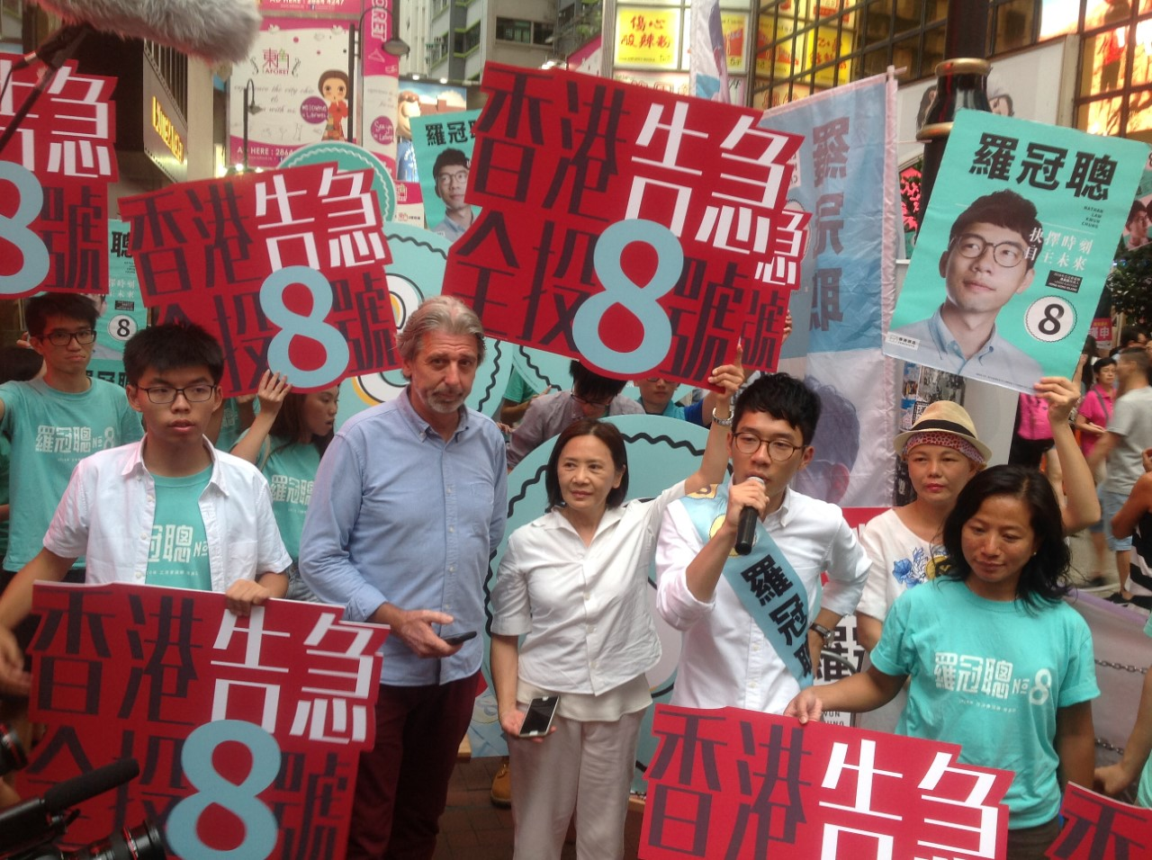 Nathan Law Kwun-chung in 2016 Legislative Council Election